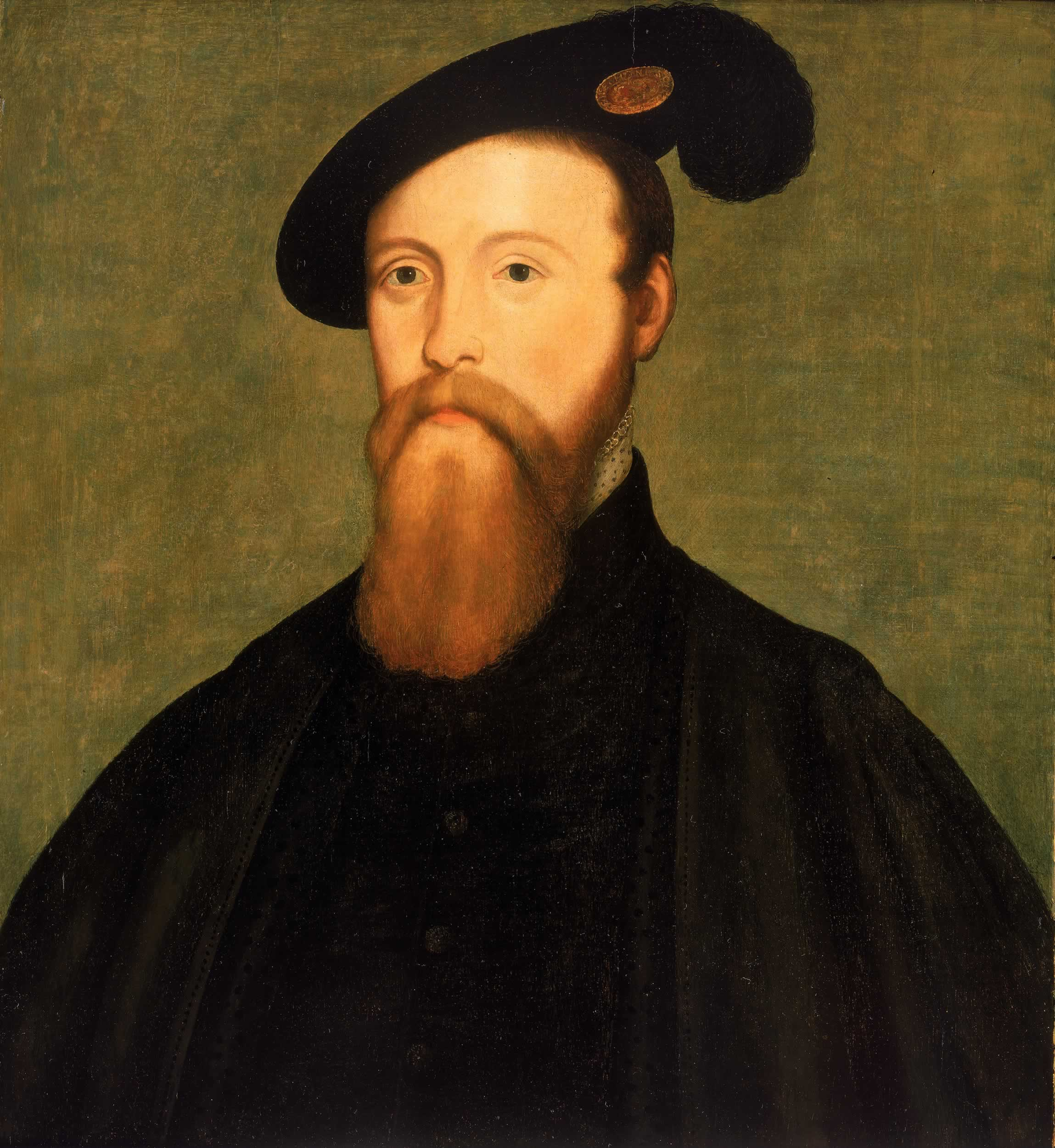 Caption from the museum's website This half-length portrait shows the sitter turning slightly to the left. Dressed in black, he has a red-brown beard and wears a black plumed hat with the Little George of the Order of the Garter pinned to it. He has been set against a green background. Thomas Seymour took part in several expeditions against the French. In 1547 he was created Baron Seymour, made Knight of the Garter, appointed Lord Admiral and also secretly married the Queen Dowager Catherine (Parr), the sixth and last wife of Henry VIII (who died that year, with Catherine following in childbirth in September 1548). The inclusion of the Garter badge here therefore suggests a date of 1547 or shortly after for this portrait, since Seymour was imprisoned and executed in 1549 for intriguing against his brother, the Duke of Somerset, Lord Protector under Henry VIII's short-lived immediate successor, the child King Edward VI (son of his third wife, Jane Seymour). There is also a very similar and good early miniature of Seymour in the collection (MNT0137) and it is at least possible that this oil might be posthumous and based on that, though the beard is rather fuller.